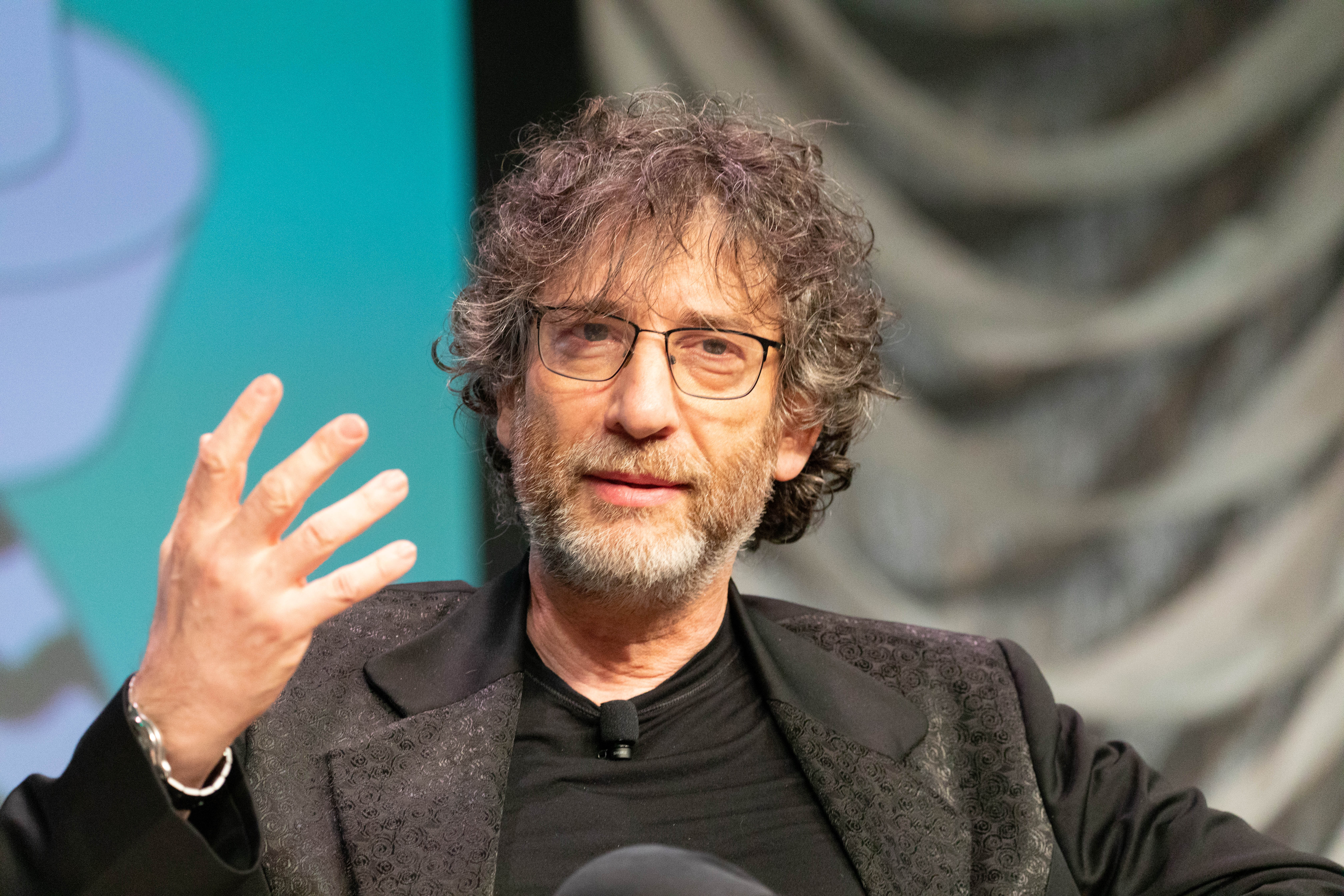 Author. Photo: Ståle Grut / NRKbeta